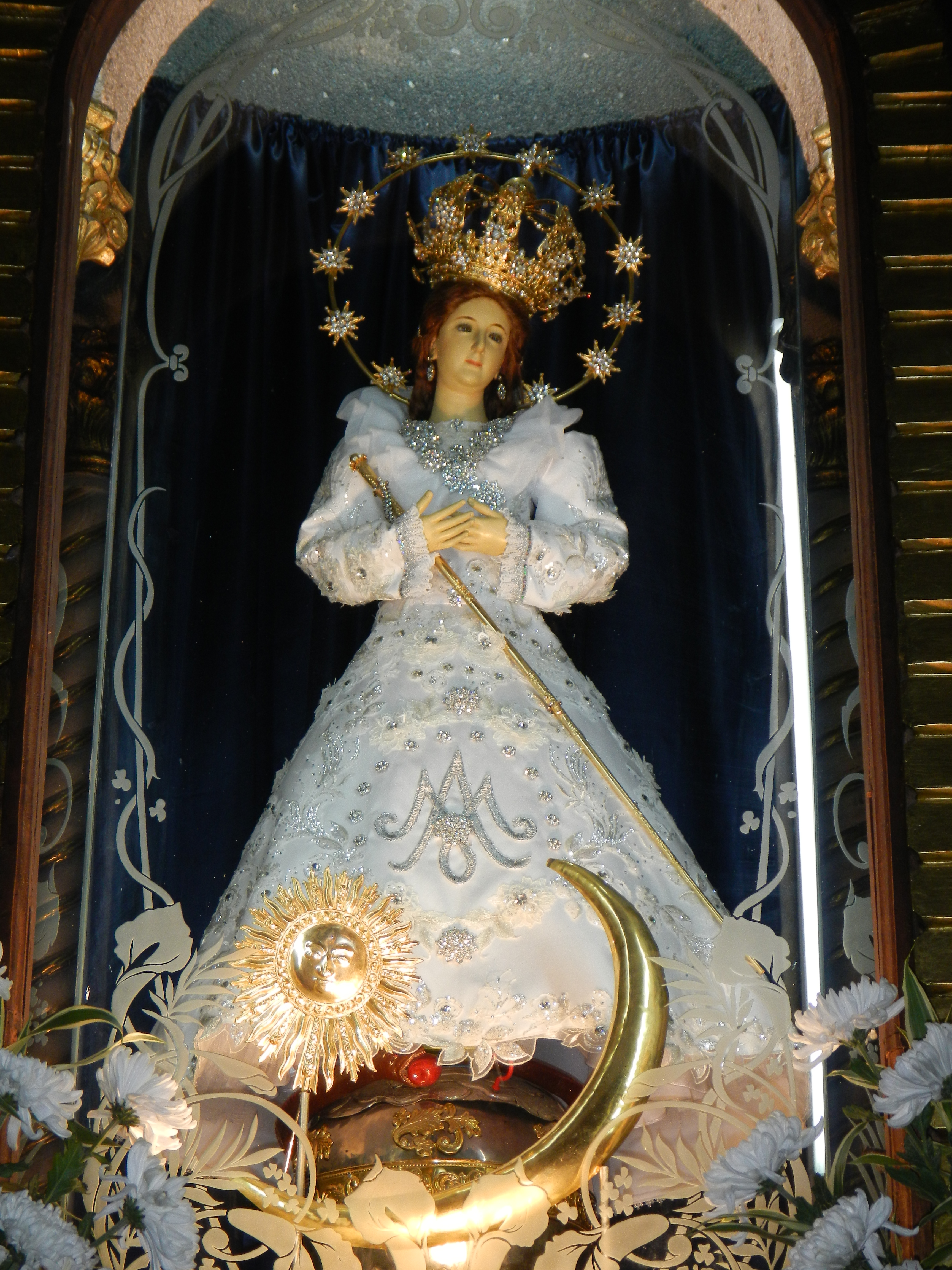 The statue of Our Lady of the Immaculate Conception at the Parish Church in Dasmariñas, Cavite, Philippines.